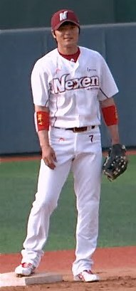 Nexen Heroes Baseball Game - 20JUN2010-Photo by SSG Nicholas Salcido